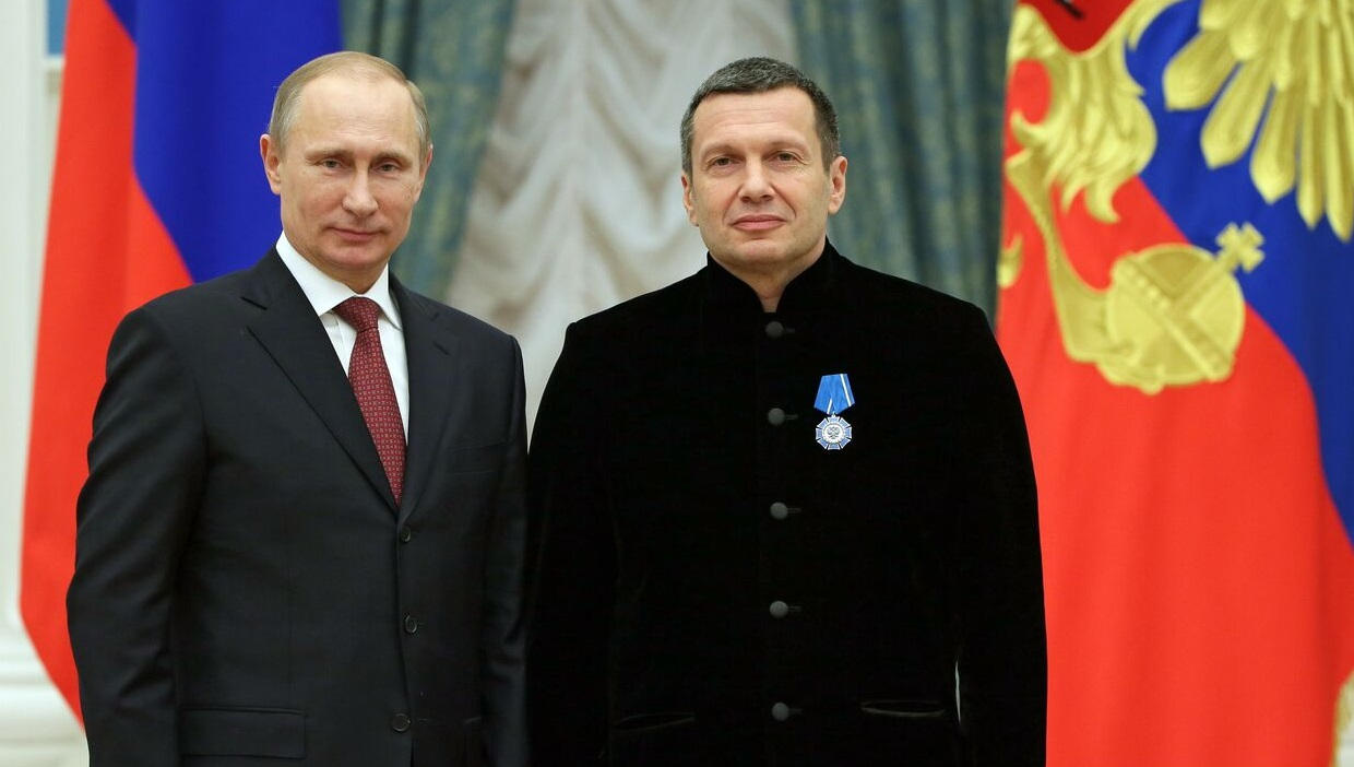 Portrait of russian anchorman Vladimir Rudol'fovich Solovyov with President of Russian Federation Vladimir Putin